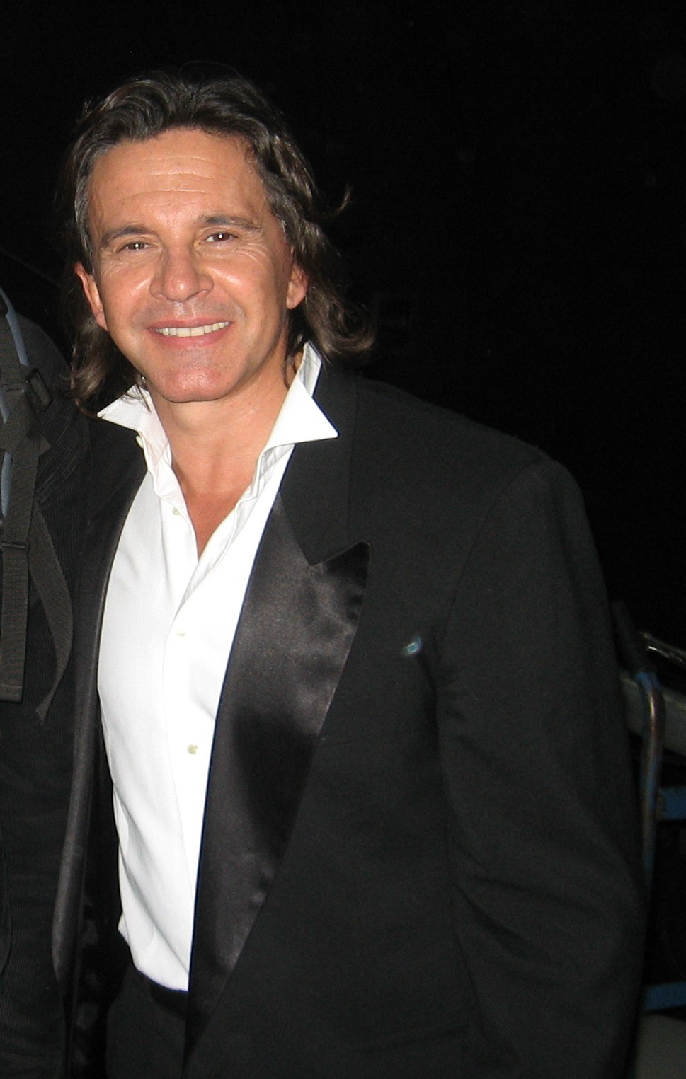 Actor and singer Osvaldo Laport